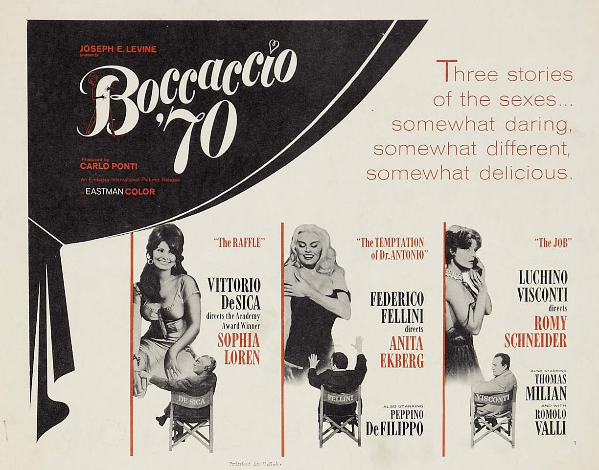 Boccaccio '70 is a 1962 Italian anthology film directed by Mario Monicelli, Federico Fellini, Luchino Visconti and Vittorio De Sica, from an idea by Cesare Zavattini. This was printed in the USA without a copyright notice and pre-1978, thus public domain.